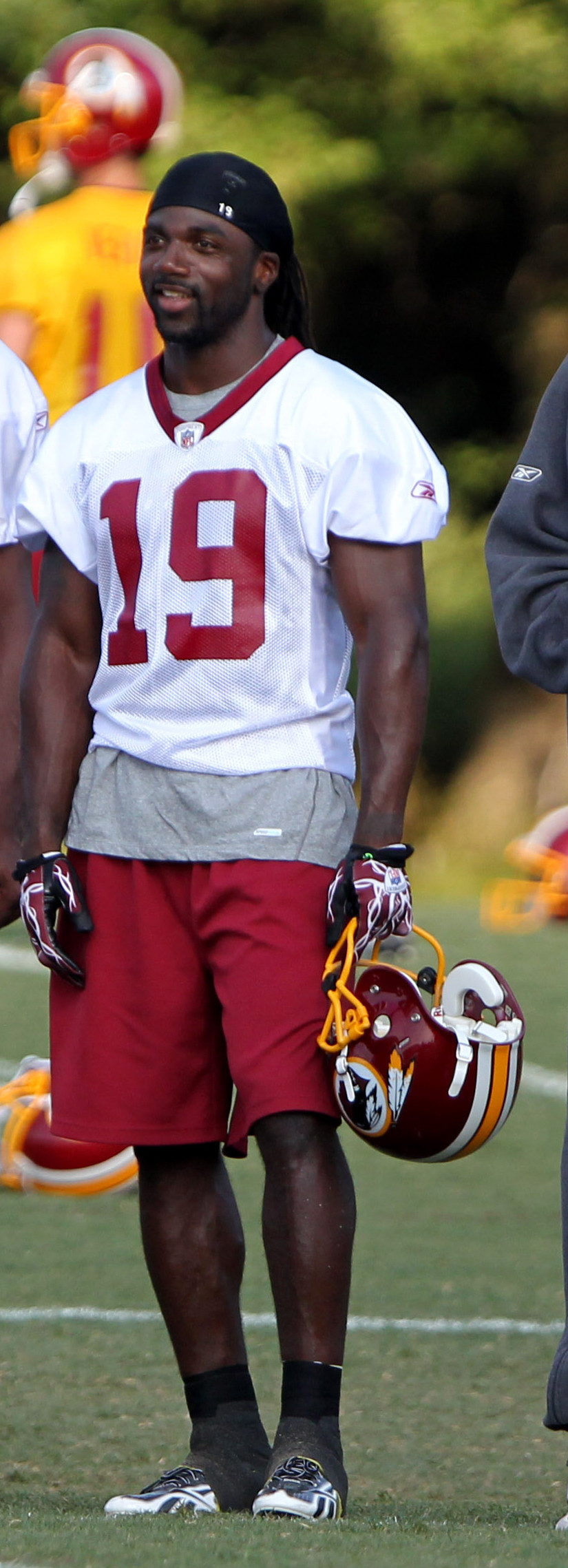 Donté Stallworth at Washington Redskins Training Camp August 4, 2011